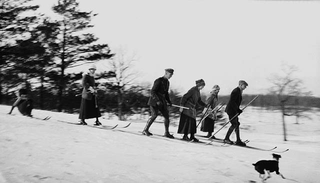 The Harvey family skiing, Toronto, Ont.